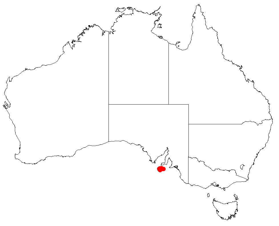 Hakea aenigma Occurrence data downloaded from Australasian Virtual Herbarium on 22 November 2018 using